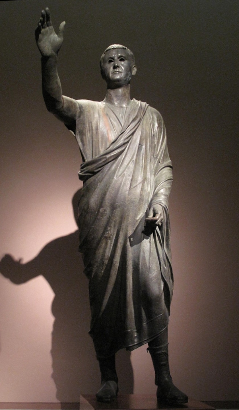 Aule Metele is a Romano-Etruscan work in the Roman style and depicts an Etruscan man wearing a short Roman toga and footwear. His right arm is raised to indicate that he is an orator addressing the public. An inscription on the hem of his toga gives his name and parentage.